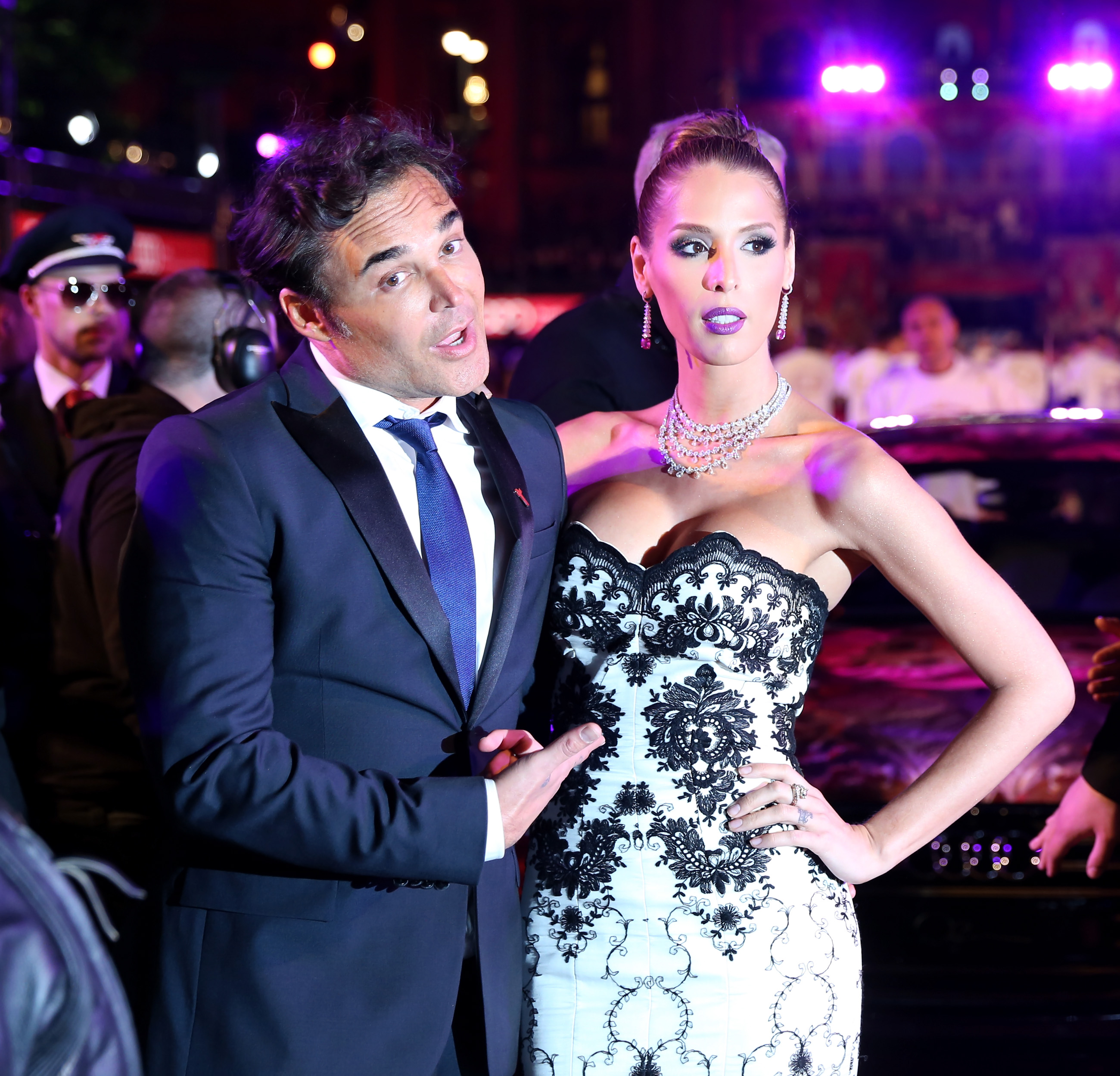 Life Ball 2014: Carmen Carrera and David LaChapelle on the red carpet on the square in front of the Rathaus (Town Hall) of Vienna, Austria.